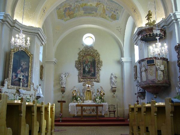 St. Martin church in Vesela by Valašské Meziříčí – interior (Czech republik)